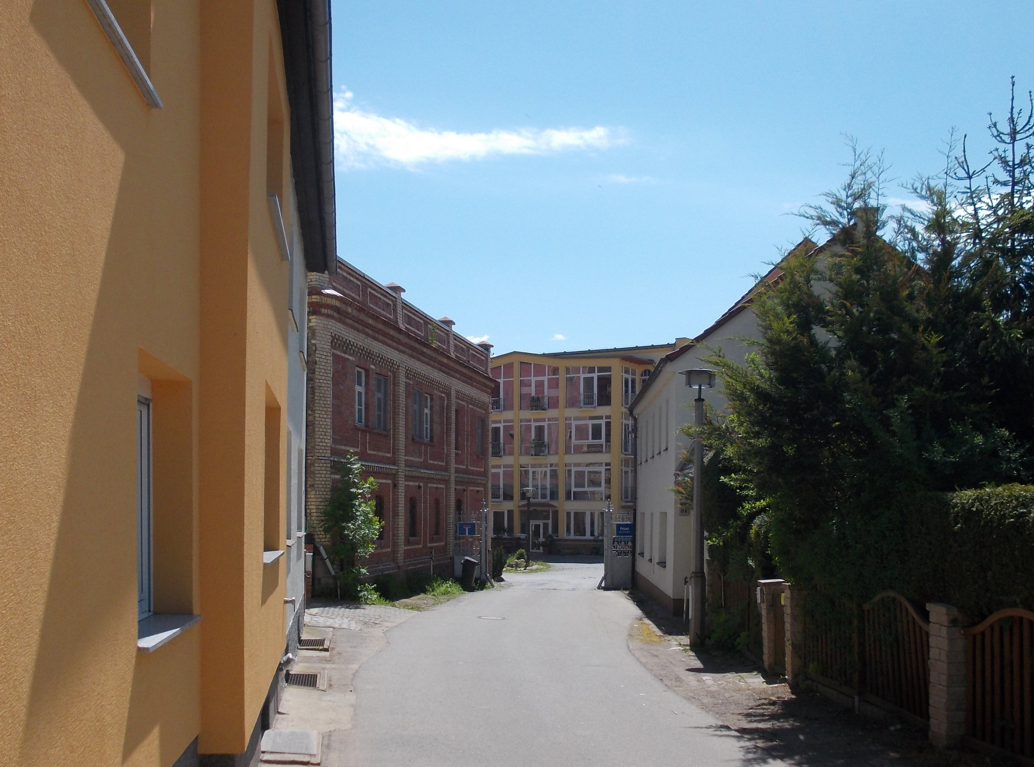 Altscherbitz mill (Schkeuditz, Nordsachsen district, Saxony)